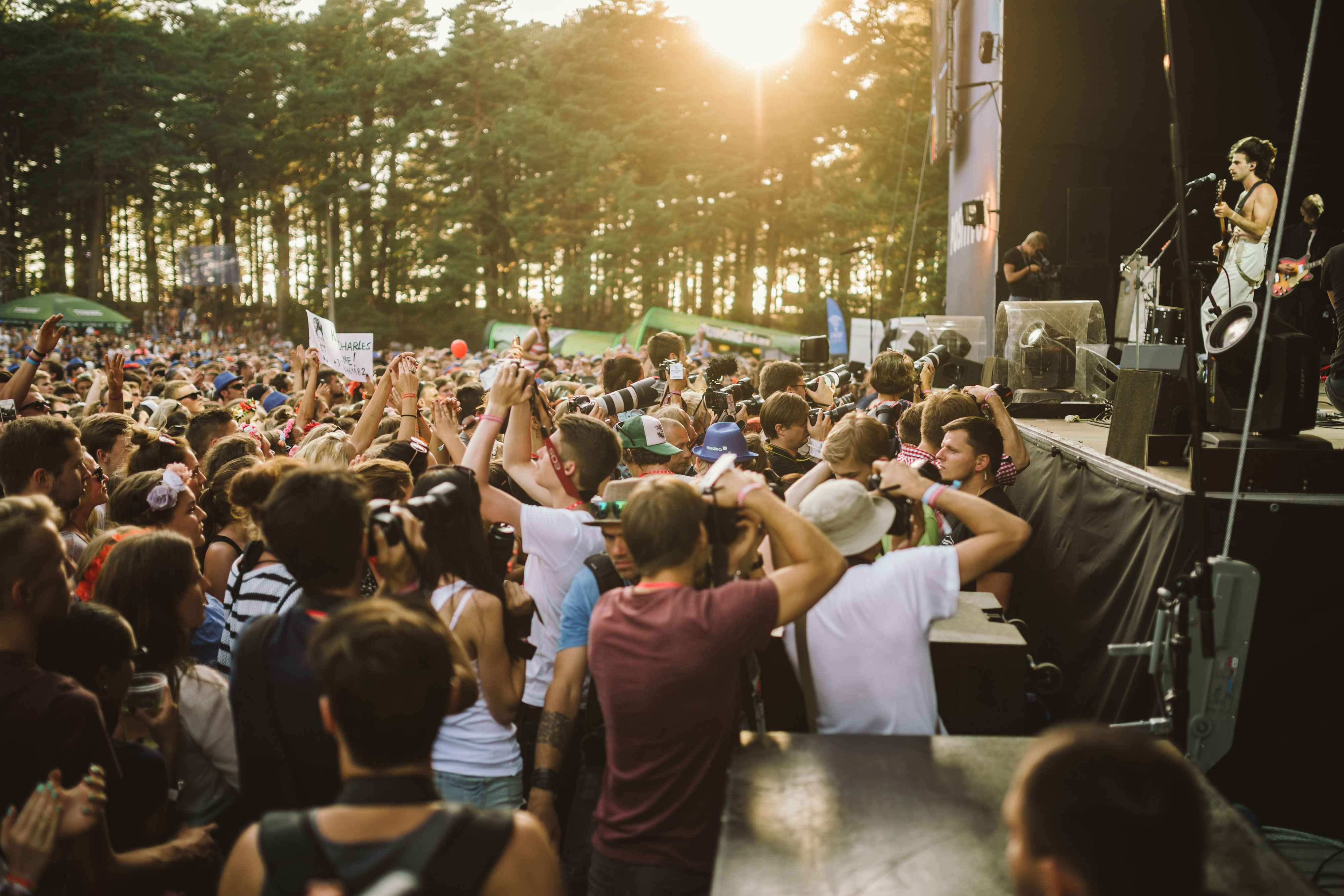 Music festival Positivus. King Charles performing on Nordea stage. 19th July, 2014.